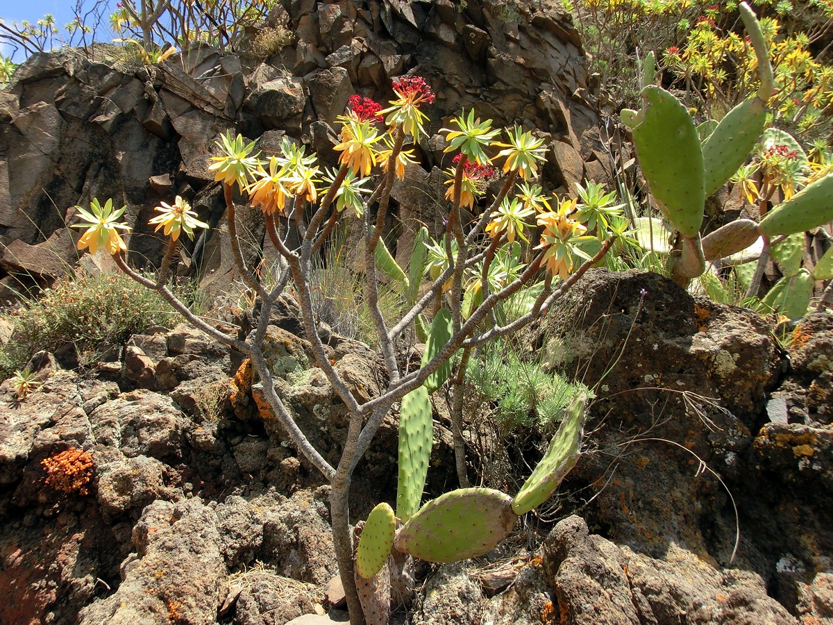 Euphorbia atropurpurea, habit. W Tenerife, Teno mountains, SW of Santiago del Teide, Roque del Paso, ca. 800 m.